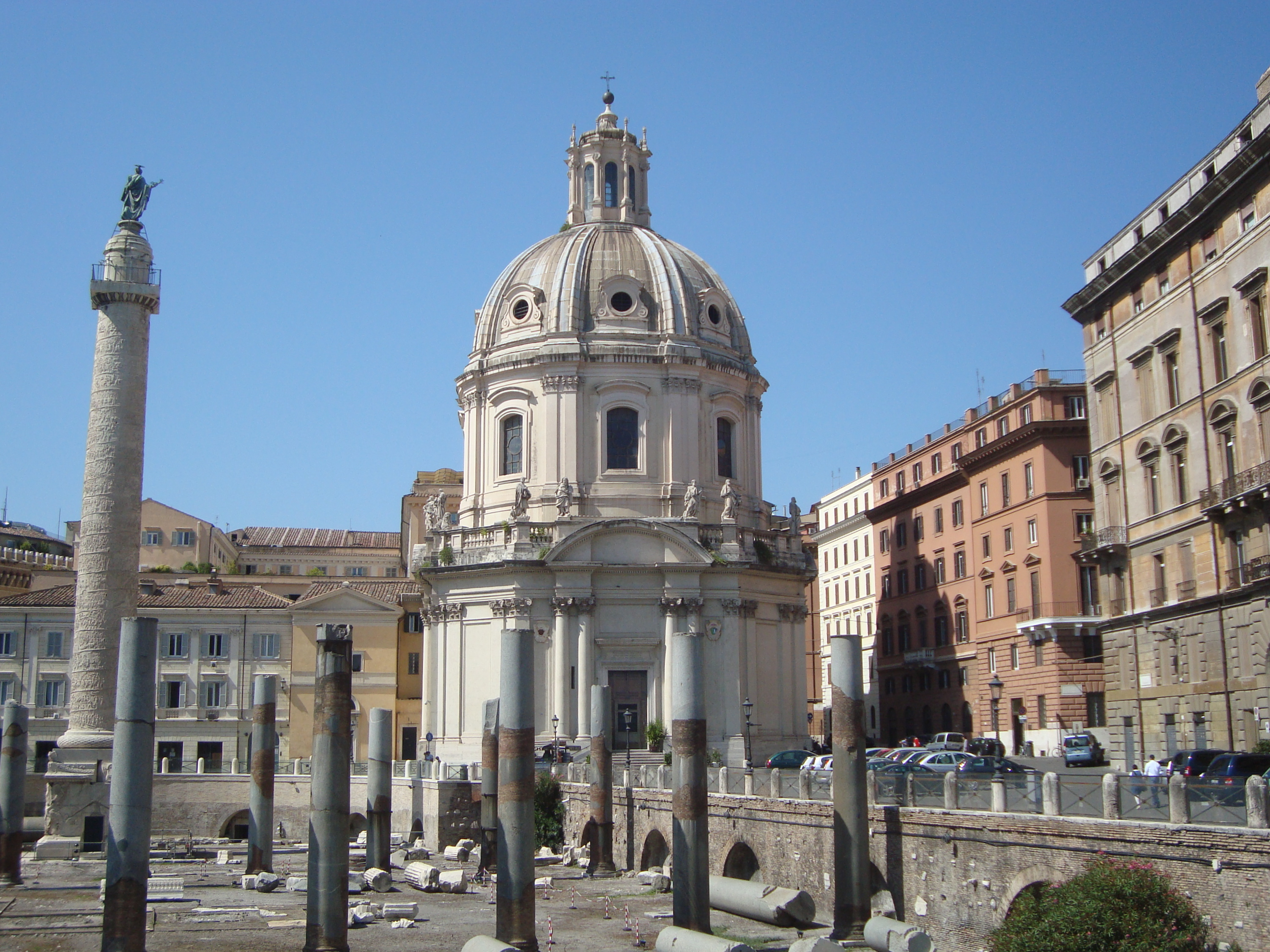 Church Santissimo Nome di Maria al Foro Traiano in Rome